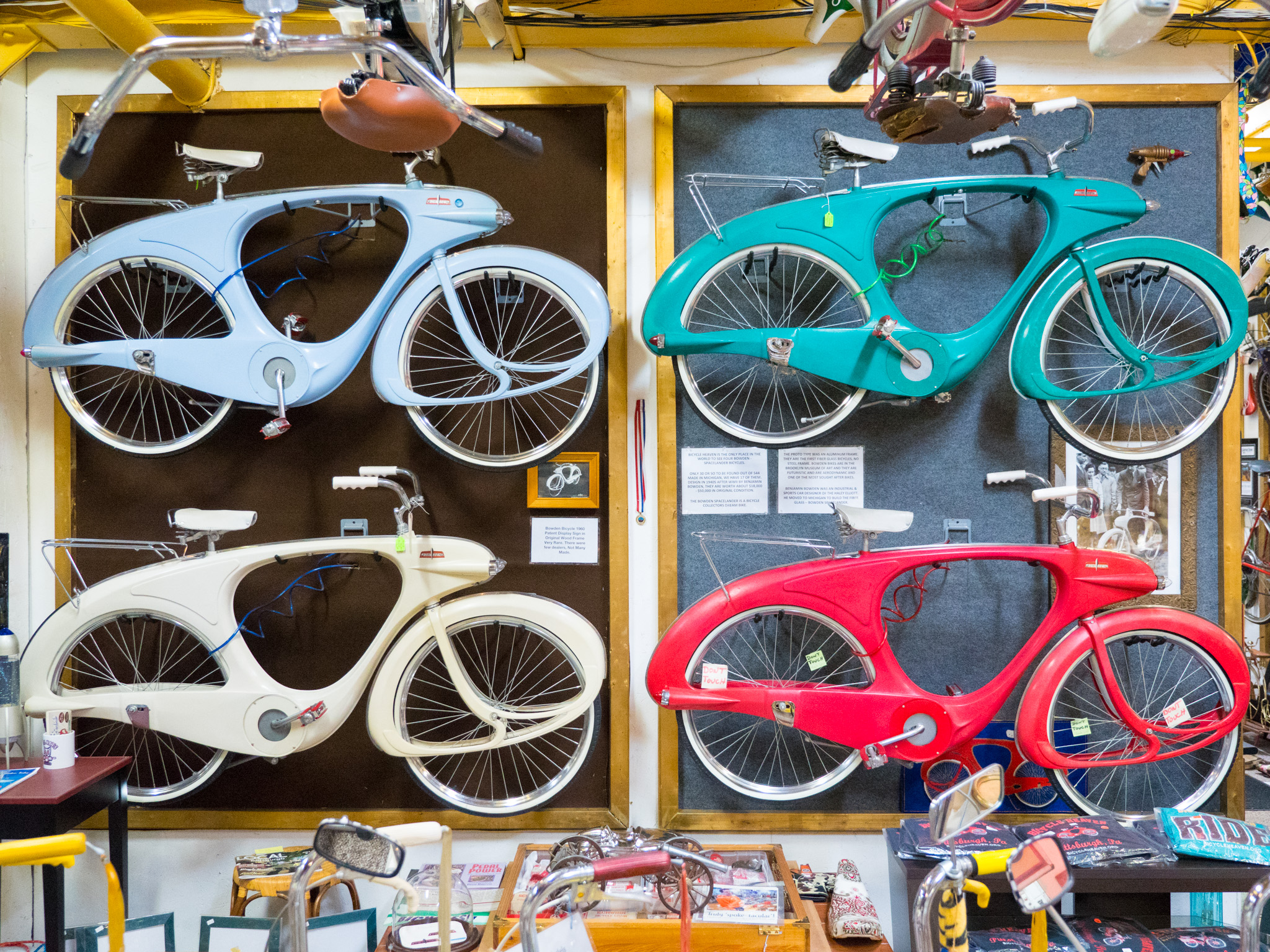 Four multicolored Bowden Spacelanders seen at Bicycle Heaven